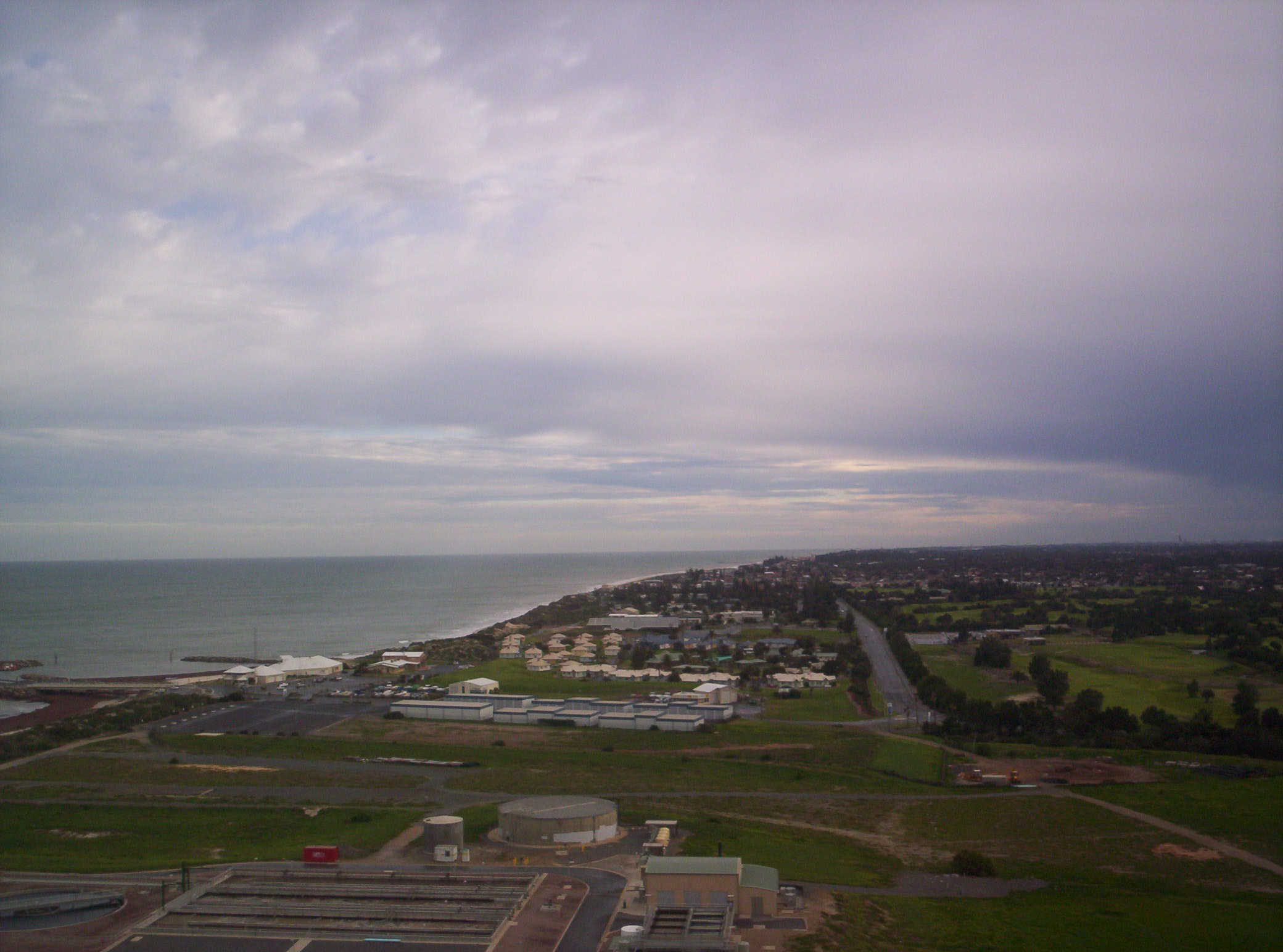 Southern West Beach, seen from the south. Adelaide Shores is in the midground, bisected by Military Road.